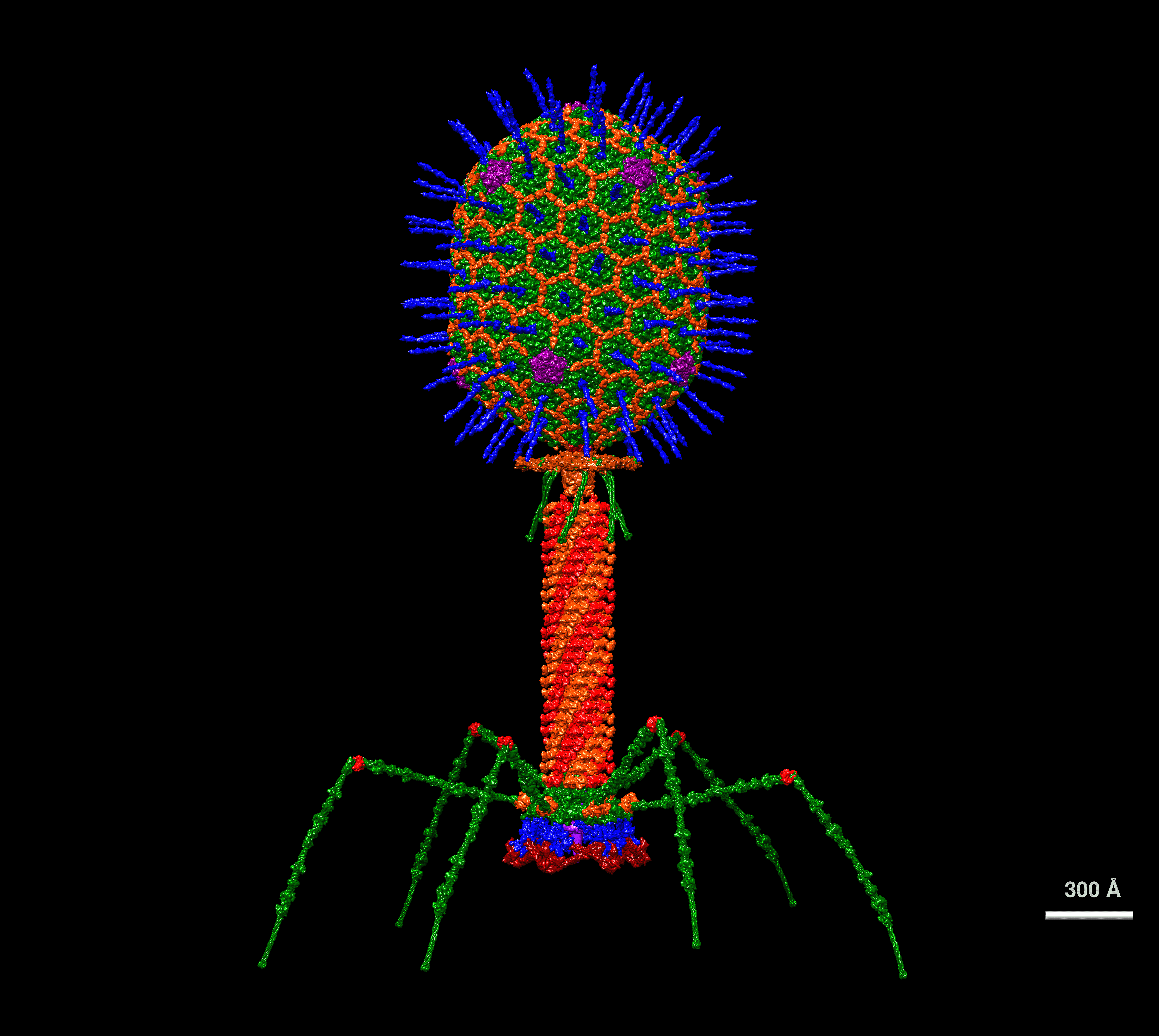 Atomic structural model of bacteriophage t4 in UCSF Chimera software using pdbs of the individual proteins. By Dr Victor Padilla-Sanchez, PhD (Washington DC)